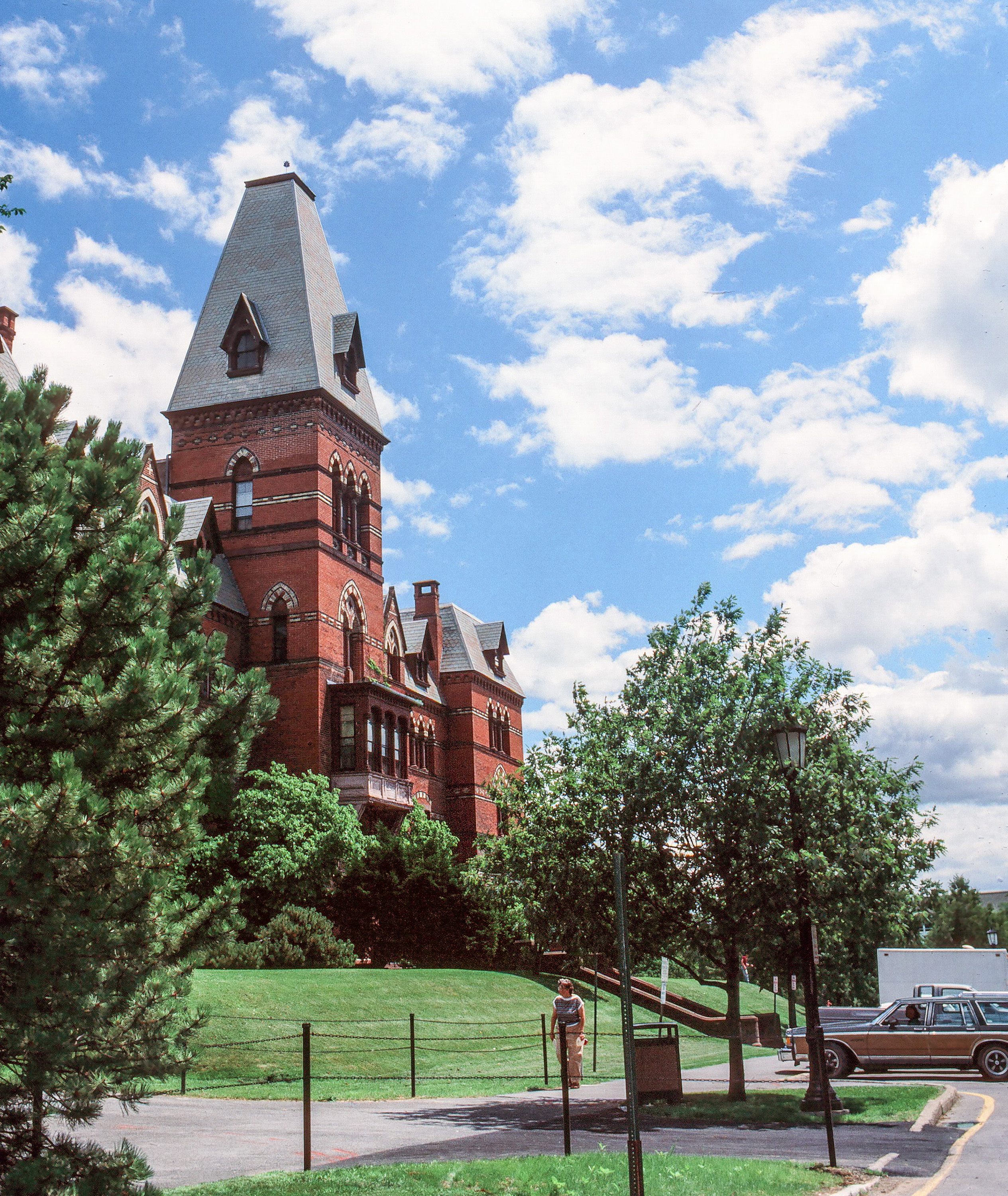 Sage Hall at Cornell University in 1987. Note that it is missing its pointy top.